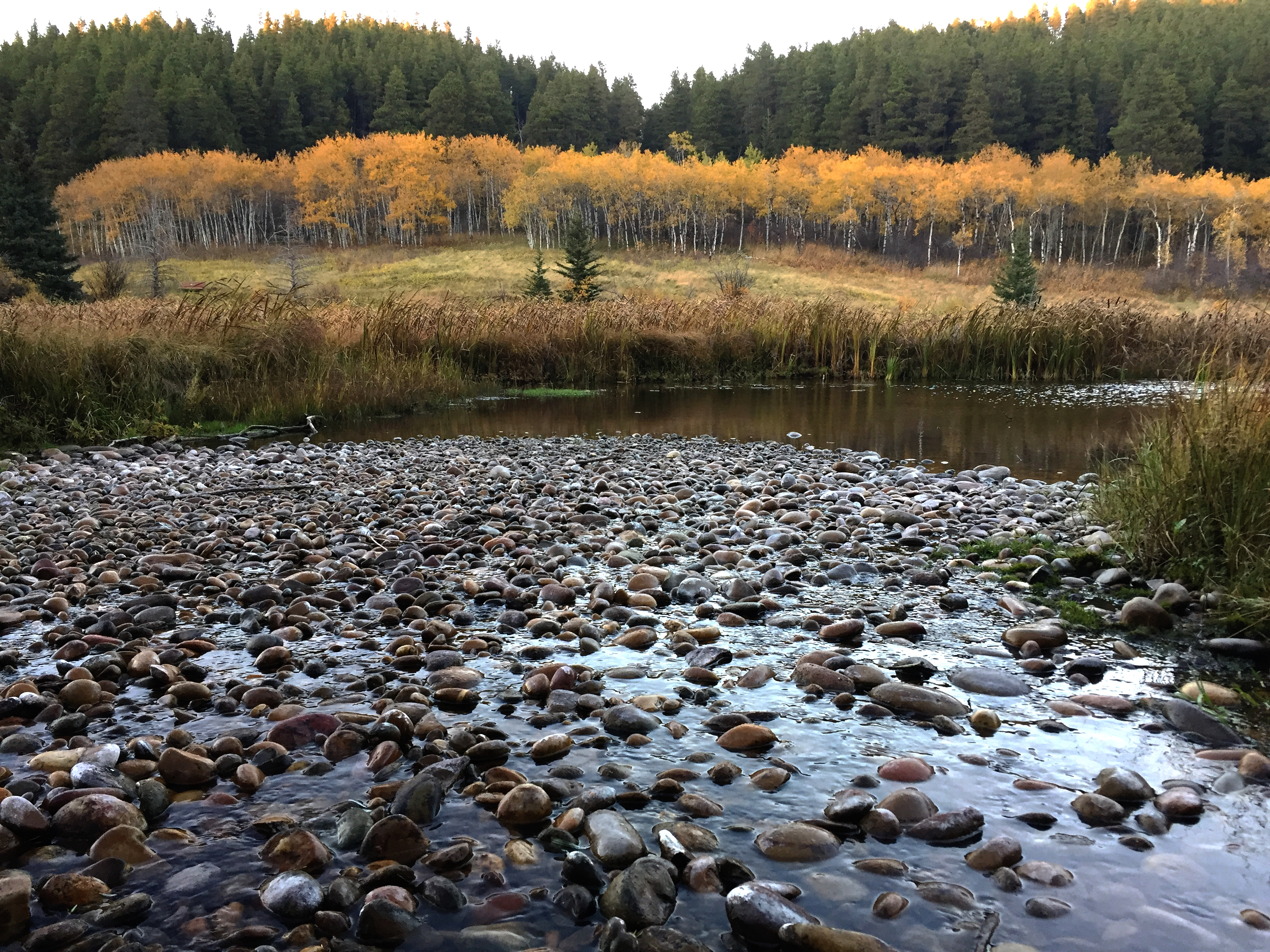 Cypress Hill Loch Lomond Area